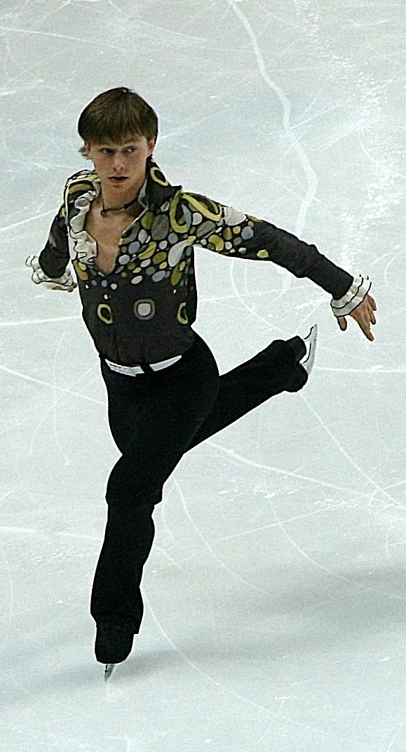 Alexander Majorov at the 2011 World Figure Skating Championships